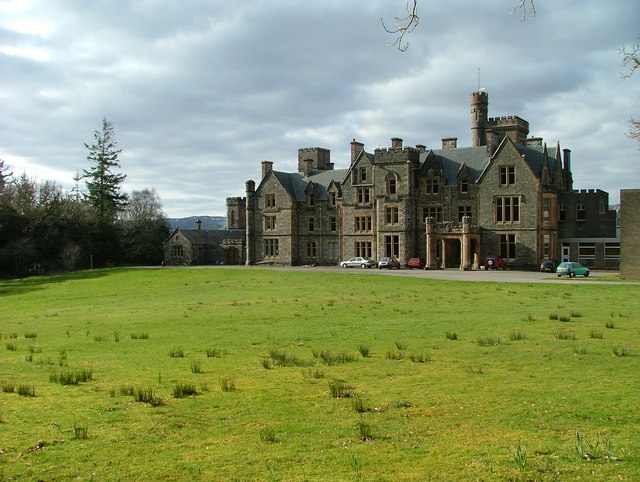 Duncraig Castle Built as a private residence in the 1860's. It was gifted to the Highland Council and from 1945 till 1989 it was used as a Domestic Science College for girls.It is now under private ownership once more.